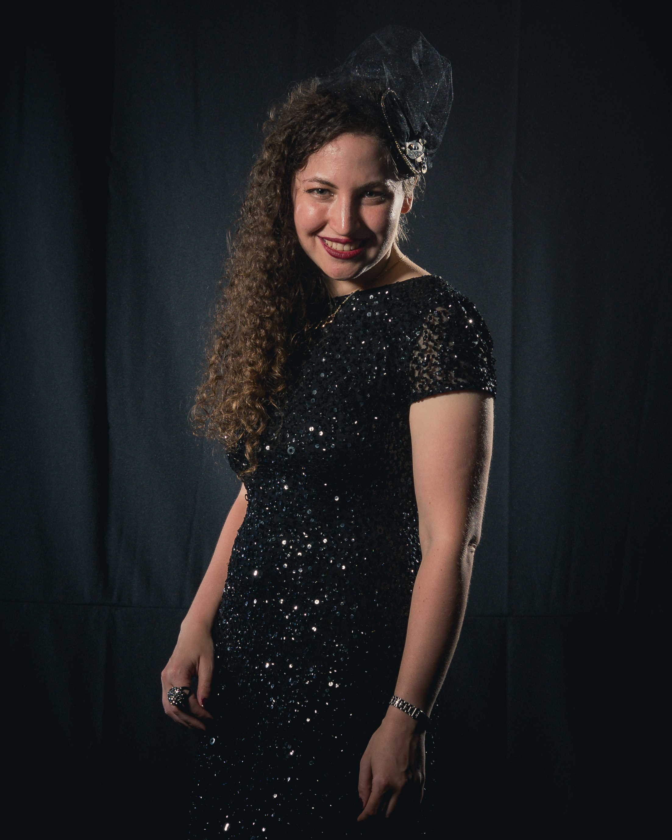 Portrait photoshoot at Worldcon 75, Helsinki, before the Hugo Awards: Navah Wolfe